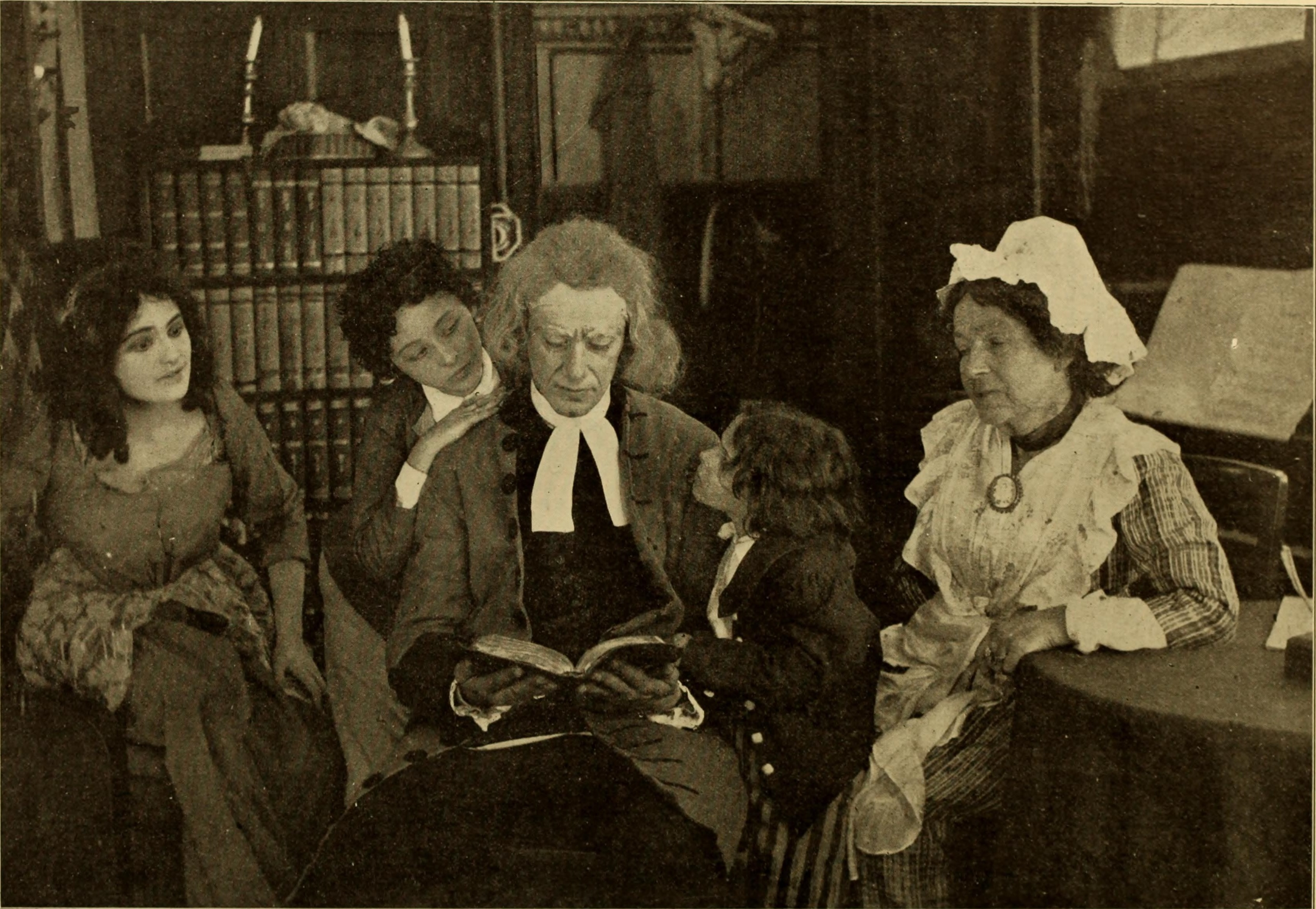 A film still from The Vicar of Wakefield by the Thanhouser Company. Released in 1910.